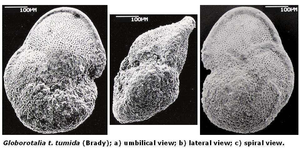 Globorotalia tumida (BRADY). Late Pliocene (Baja california, Mexico)